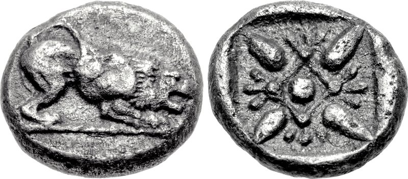 IONIA, Miletos. 5th century BC